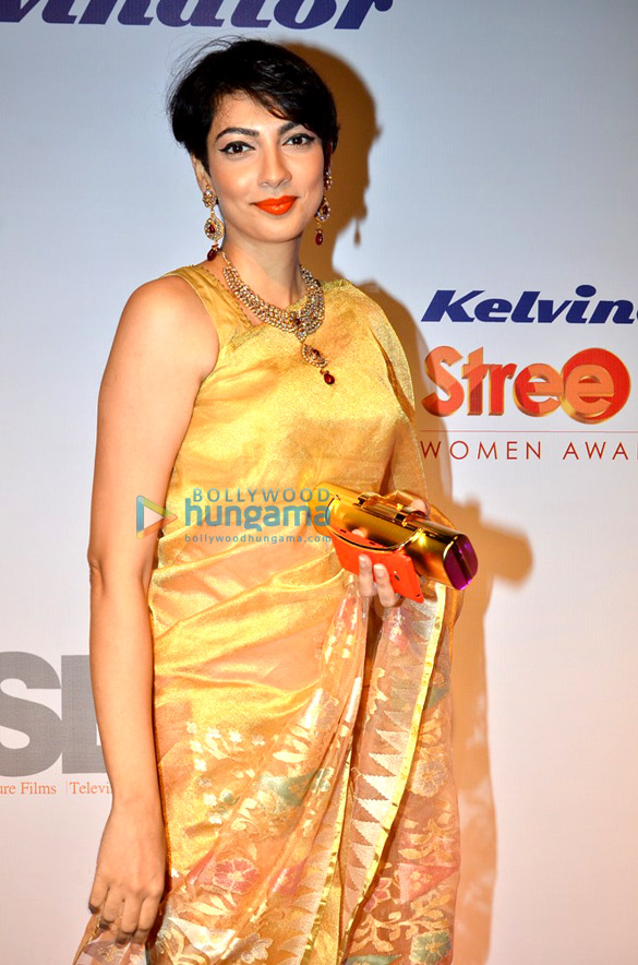 Yukta Mookhey at stree Shakti Women Awards 2014